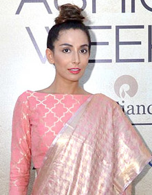 Monica Dogra graces the red carpet of Lakme Fashion Week 2017, Feb 3